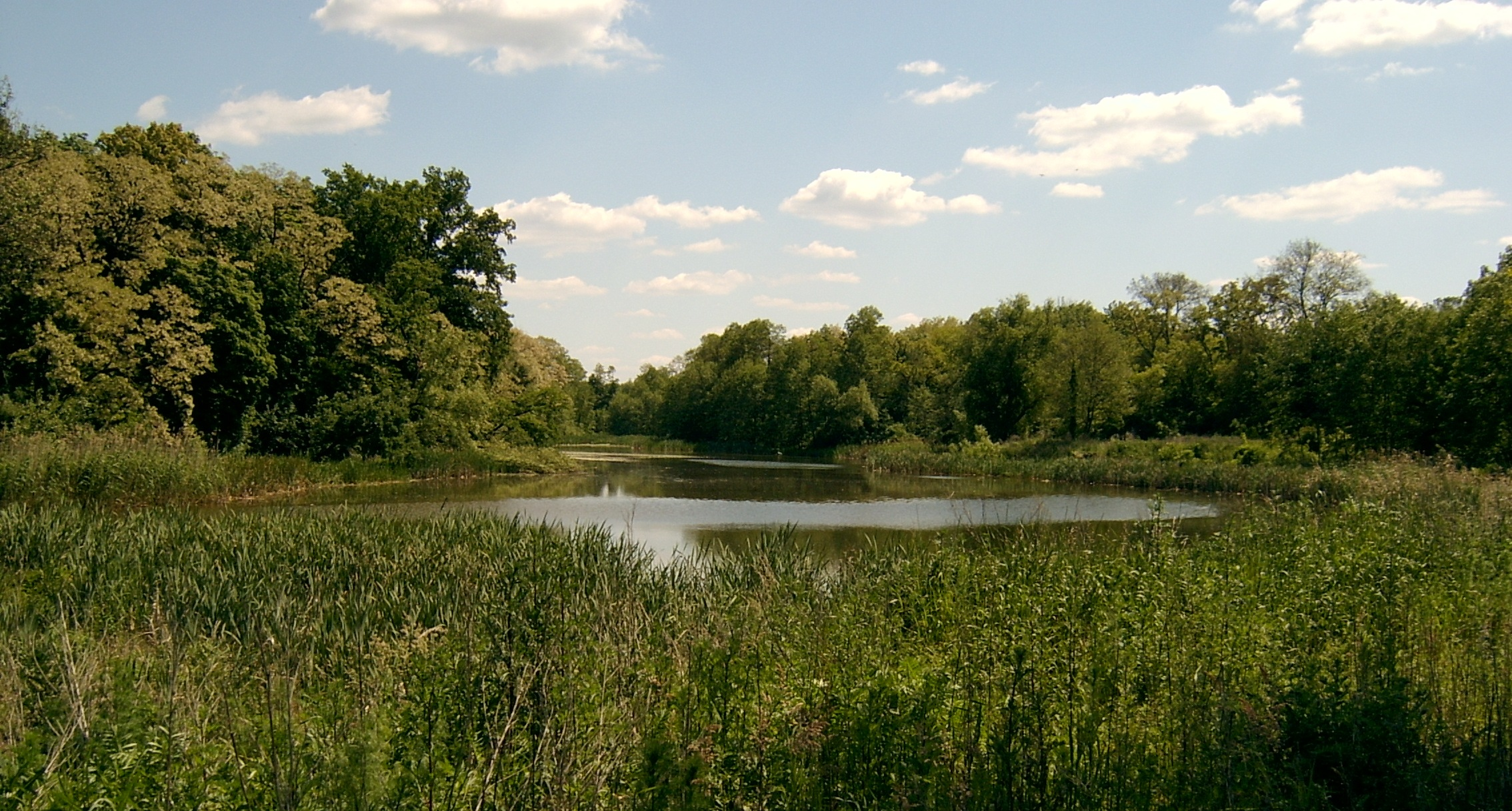 Kunowice, Poland. Pond next to the street to the cemetry.